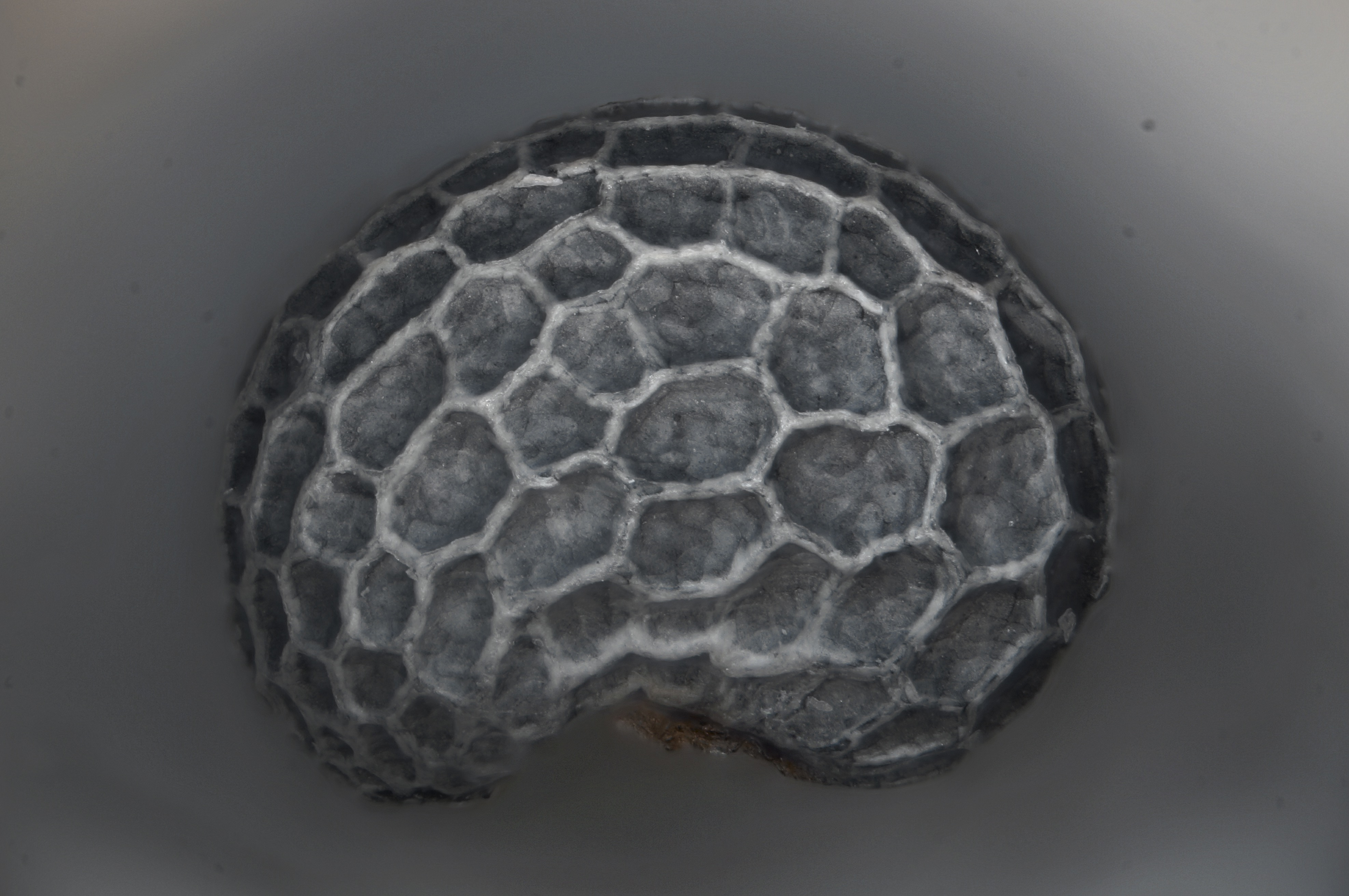 Poppy seed